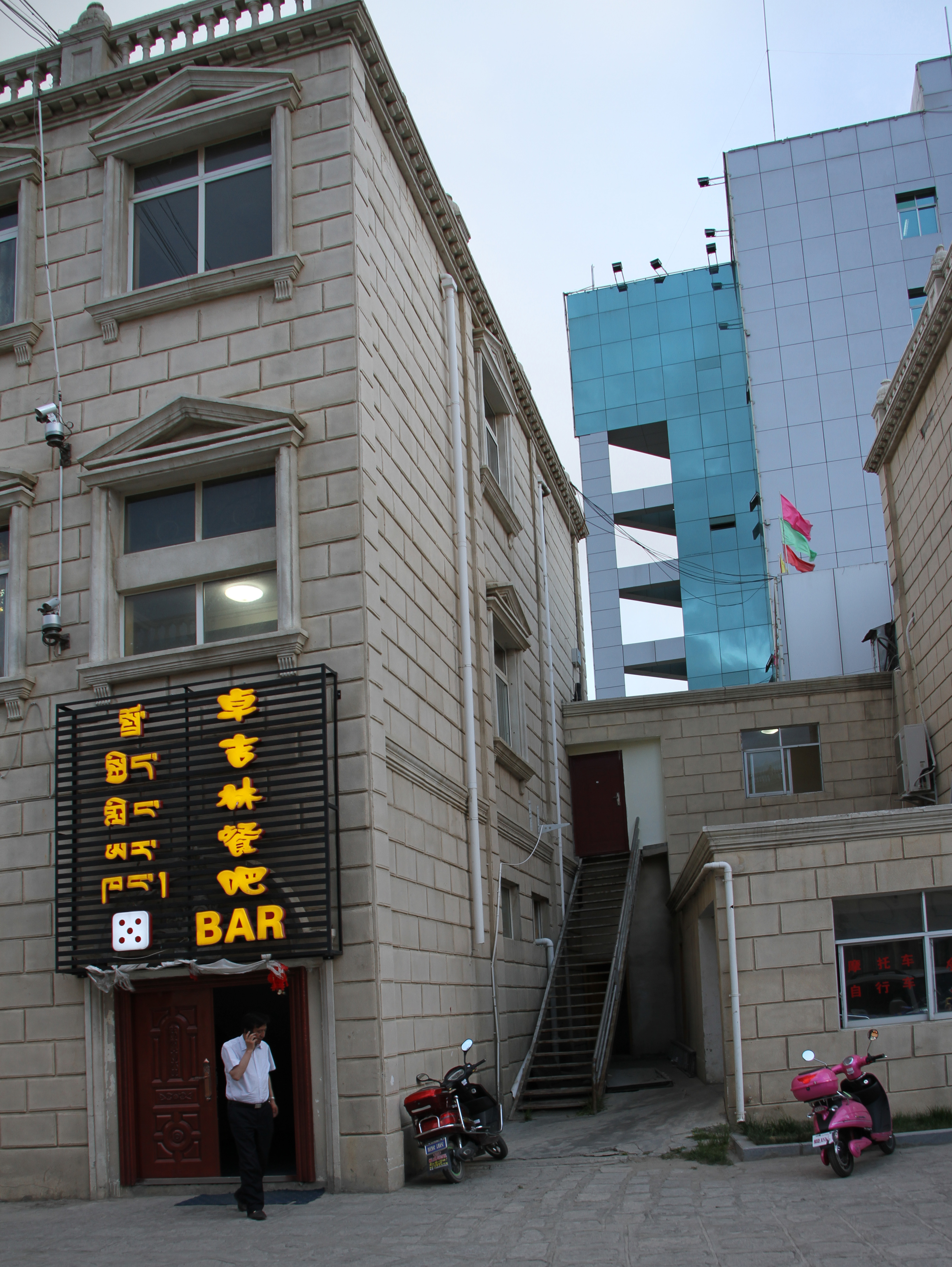 Tsetang, Nedong county, Shannon prefecture, in Tibet